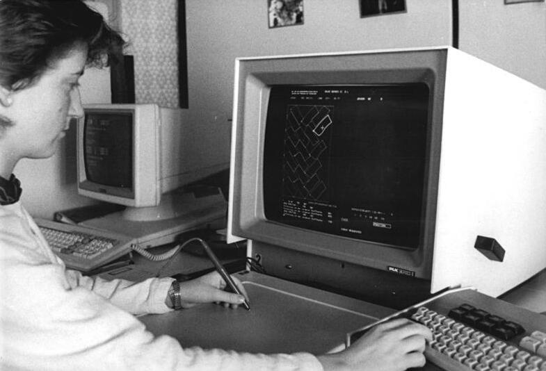 Cut by microelectronics—At Rostock Childrens' Fashion (VEB) all substantial work proceedures take place with assistance of a CAD CAM system, from the production of the pattern layout [marker] to the cutting of the cloth. During the pattern layout at the display the most economic use of material is sought.